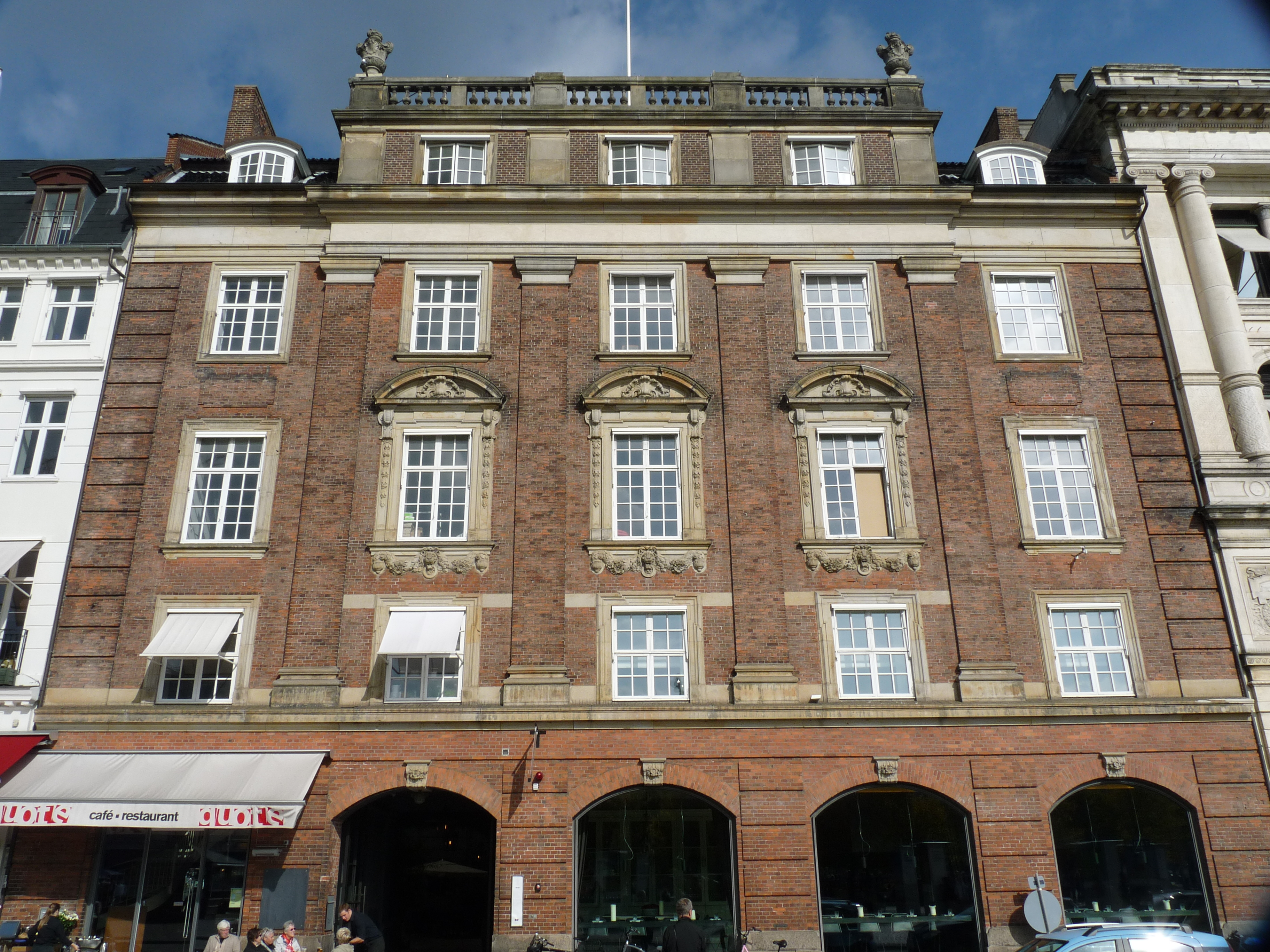 Kongens Nytorv 8 in Copenhagen, Denmark. Built in 1905 to designs by Frederik Levy. Former headquarters of A. P. Møller and Jyllands-Posten's Cph-office